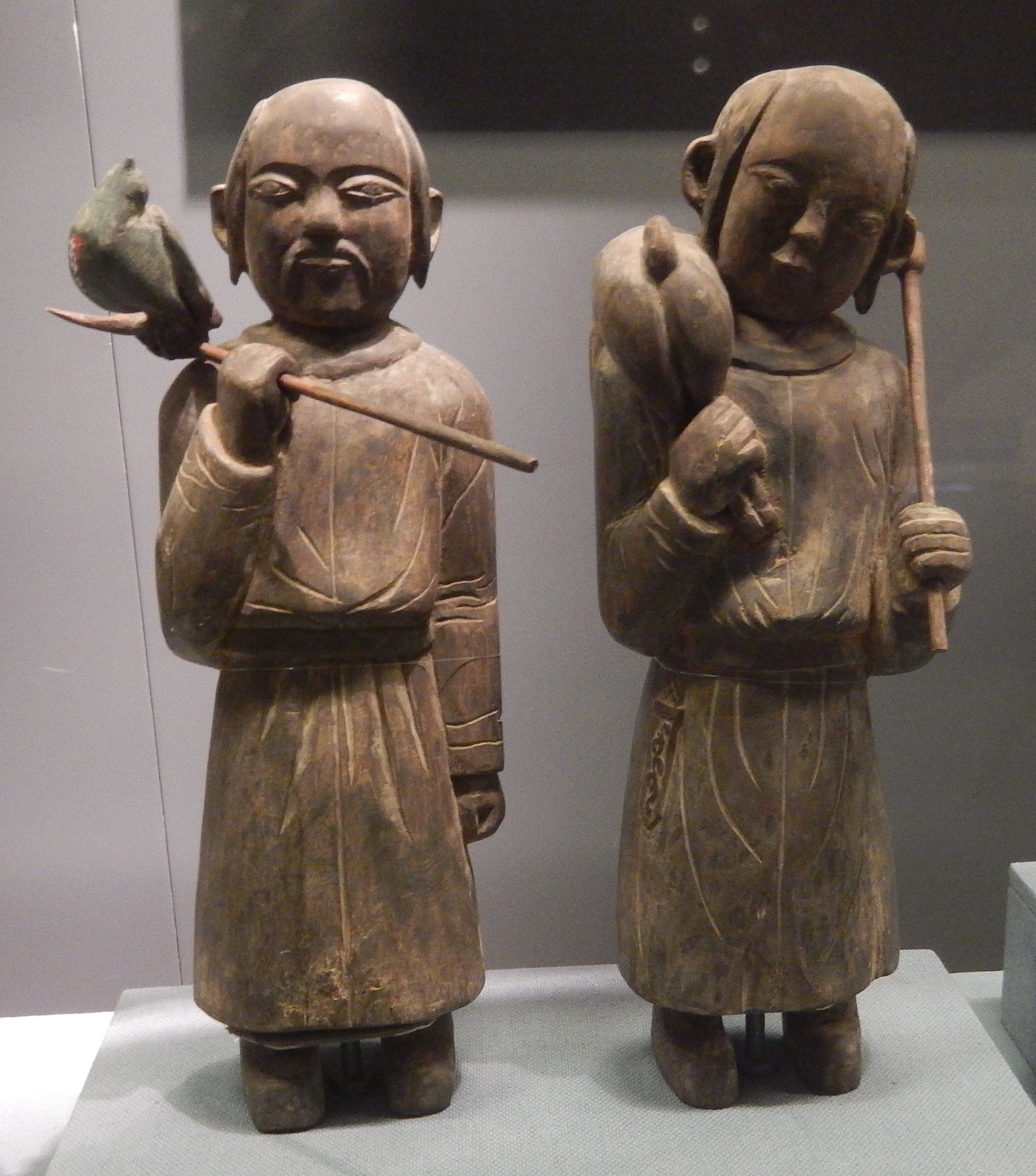 Wooden funerary figurines of Khitan hunters. Liao dynasty (907–1125). Held at the Capital Museum, Beijing.